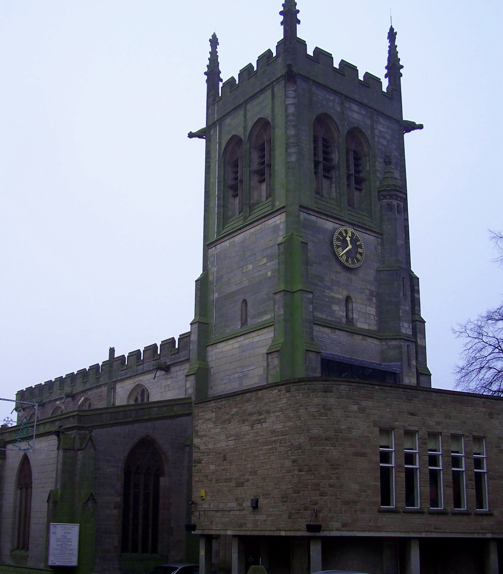 St Peters church, Derby, North West aspect showing rebuilt tower and more recent West extension, meeting and coffee rooms.